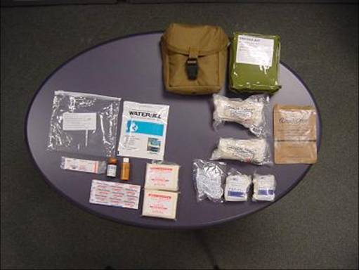 Individual First Aid Kit (IFAK) issued by United States Marine Corps